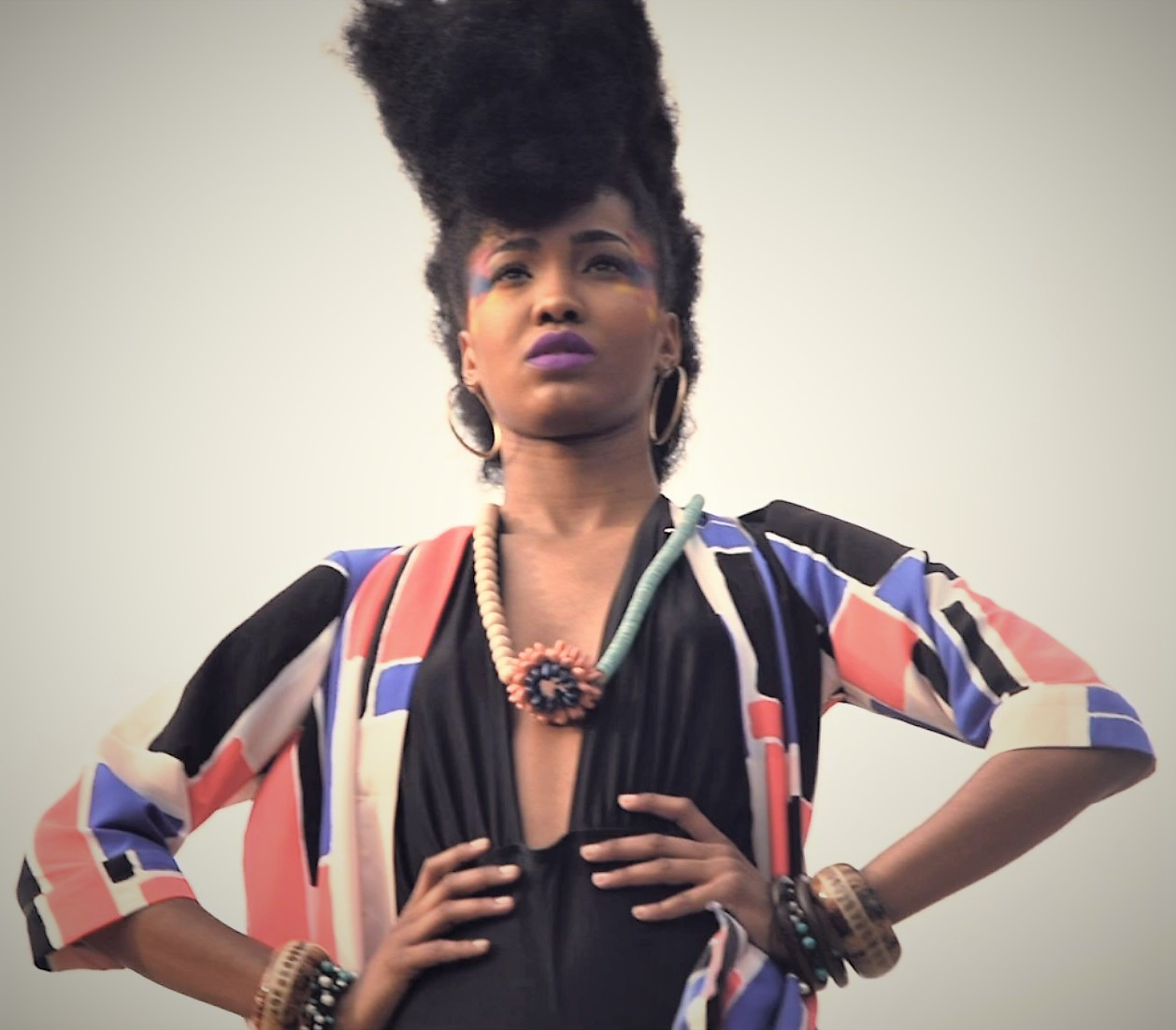 French model and beauty pageant titleholder Morgane Edvige in a modeling shoot on the tombolo at Sainte-Marie in Martinique.